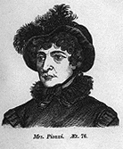 Hester Lynch Piozzi (1741-1821) british novelist. aka Hester Thrale